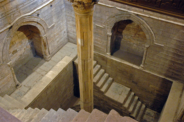 Nilometer at Rawda. Cairo. Egypt